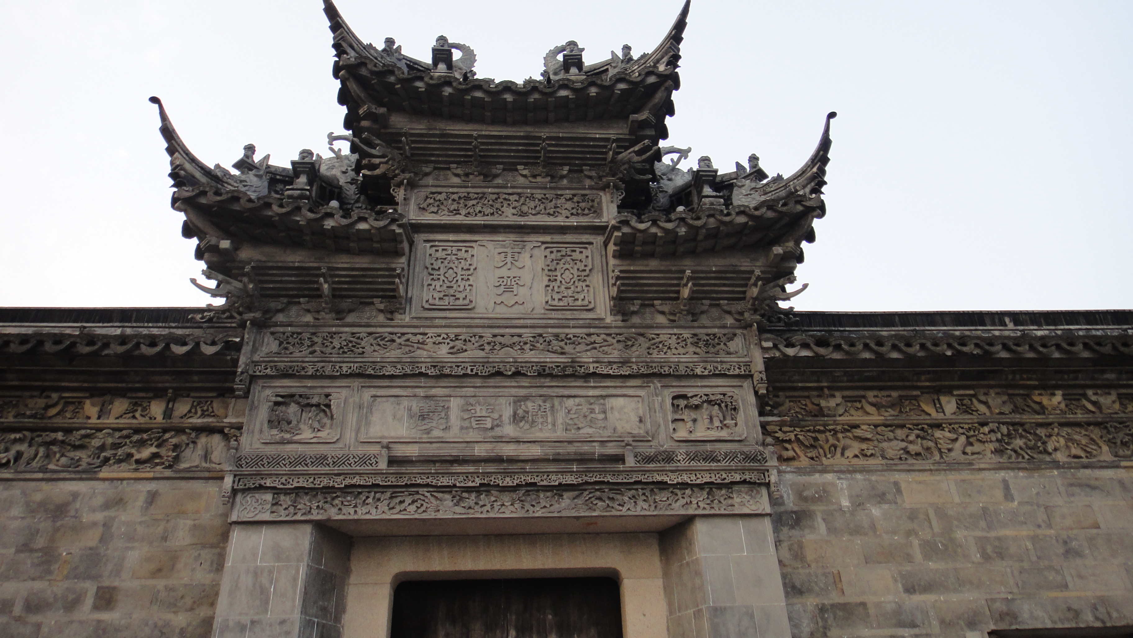 山东会馆旧址